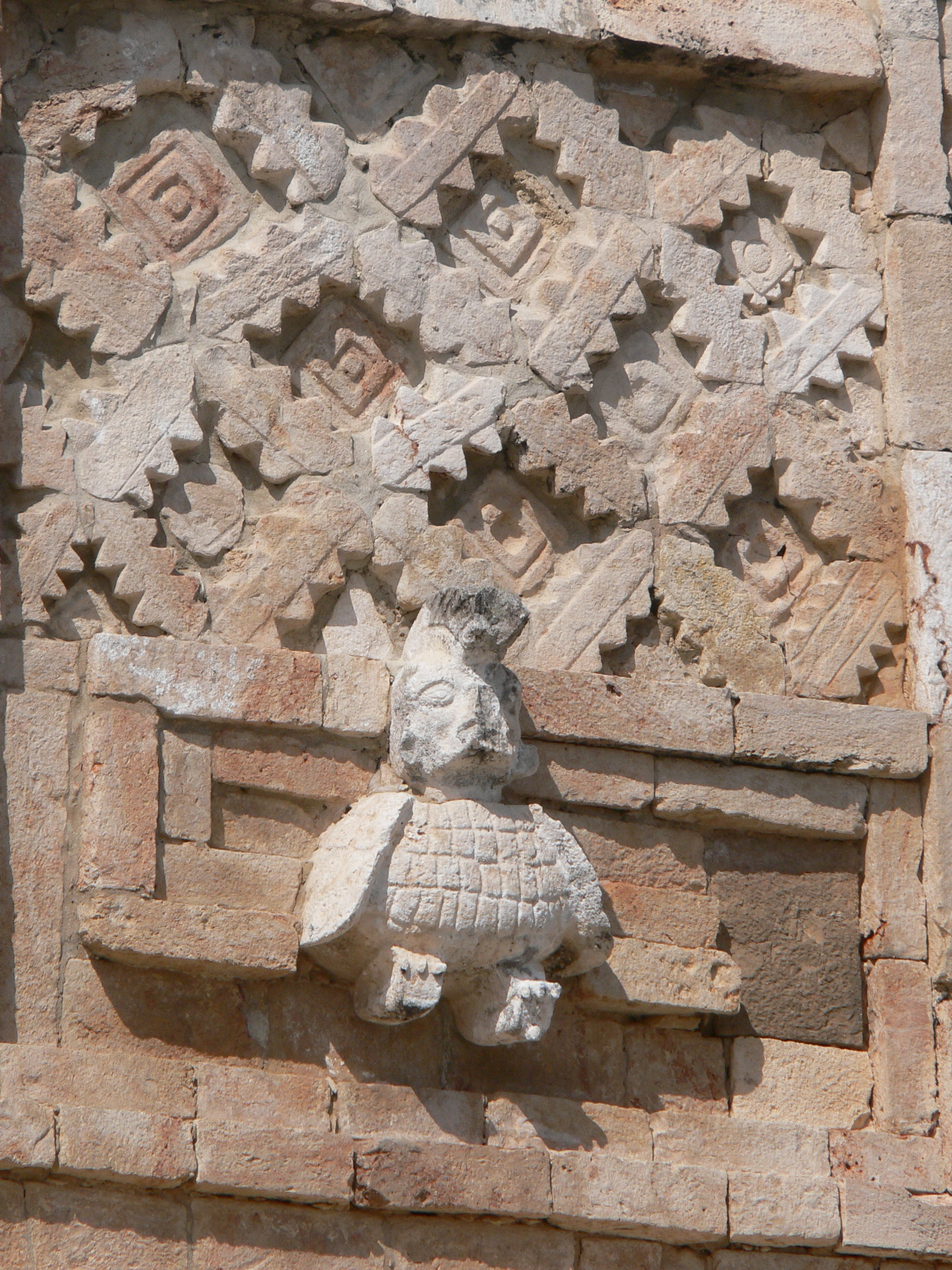 Uxmal ( Yucatan ). Cuadrangulo de las Monjas: Sculpture of a Quetzal bird at the northern palace.